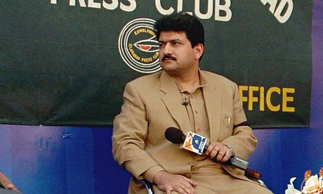 Hamid Mir on a road show